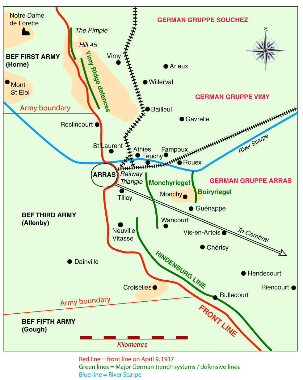 Battle of Arras. Schematic of battlefield at 05:00 hours 9 April 1917.